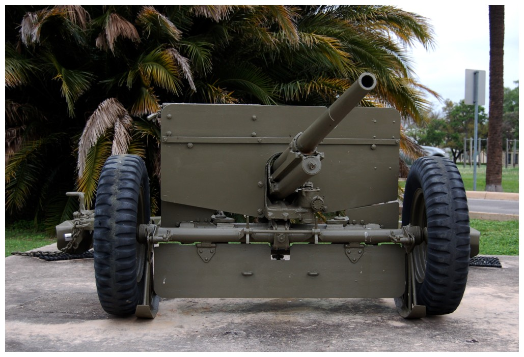 M-3 Antitank Gun 37mm (Towed) on display at Fort Sam Houston, Texas (March 2007). Photo by Peter Rimar.